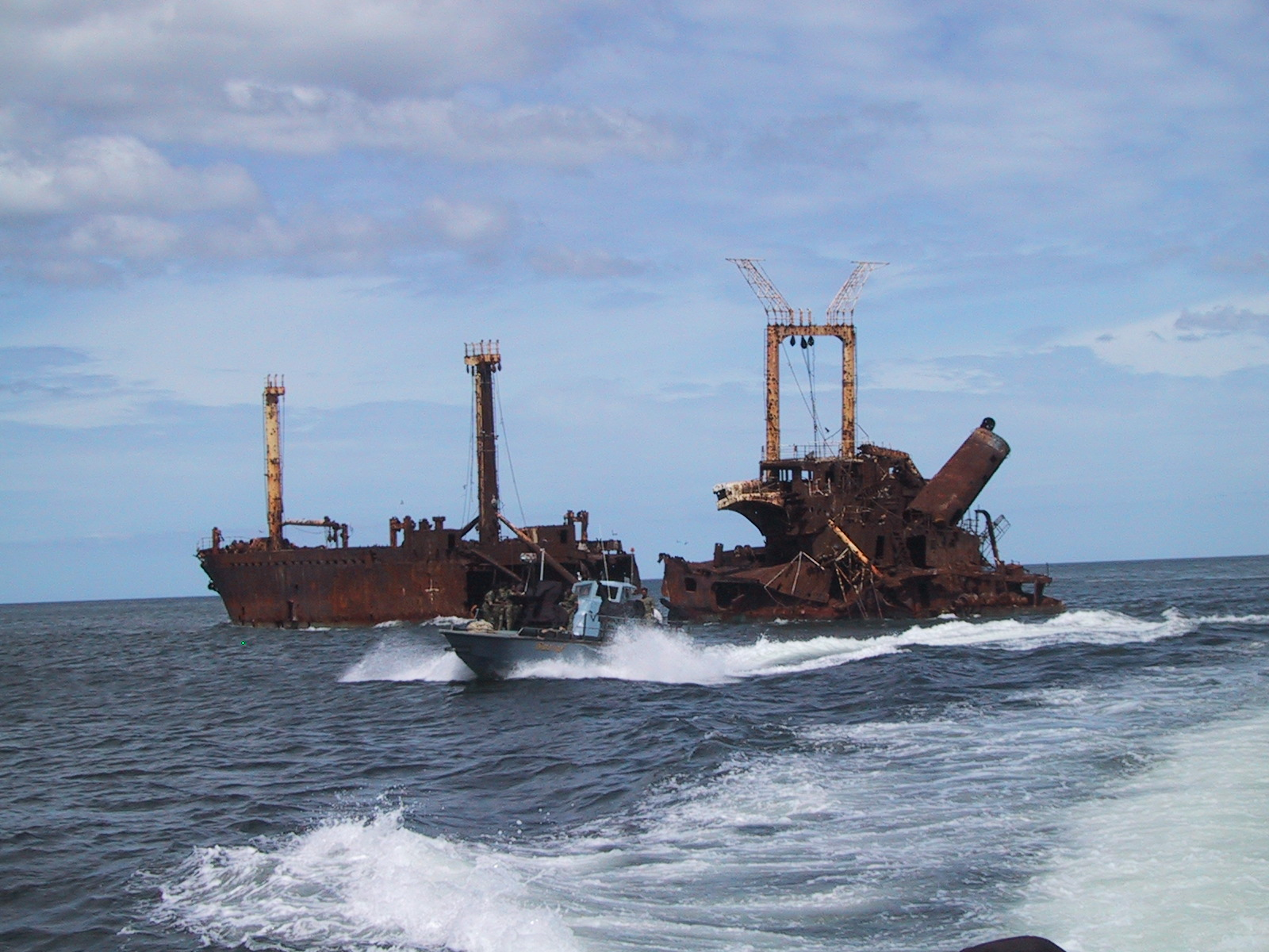 Photo taken by Isak Berntsen, in Mullaitivu, Sri Lanka, 2003. A LTTE Sea Tiger fast attack fiberglass boat passing a Sri Lankan freighter sunken by the Sea Tigers just north of the village of Mullaitivu, North-eastern Sri Lanka.